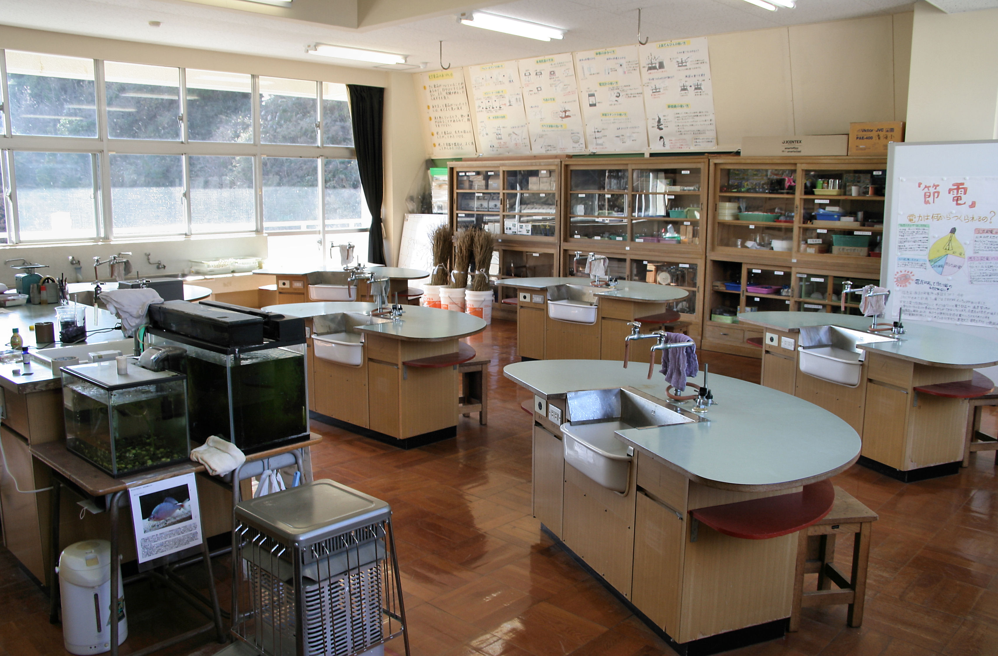 Science class in Japanese elementary school.